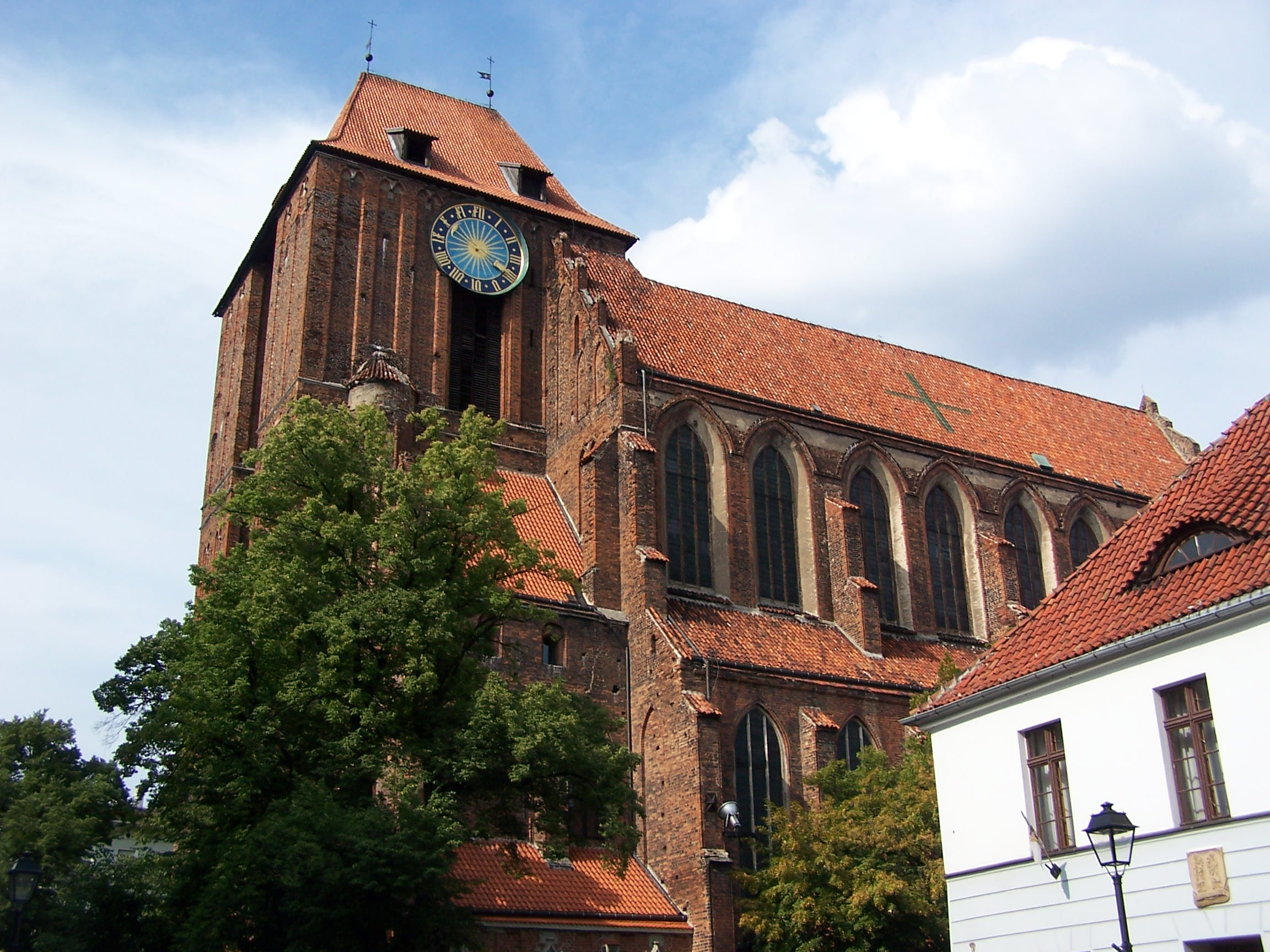 Cathedral Basilica of Sts. John the Baptist and John the Evangelist.